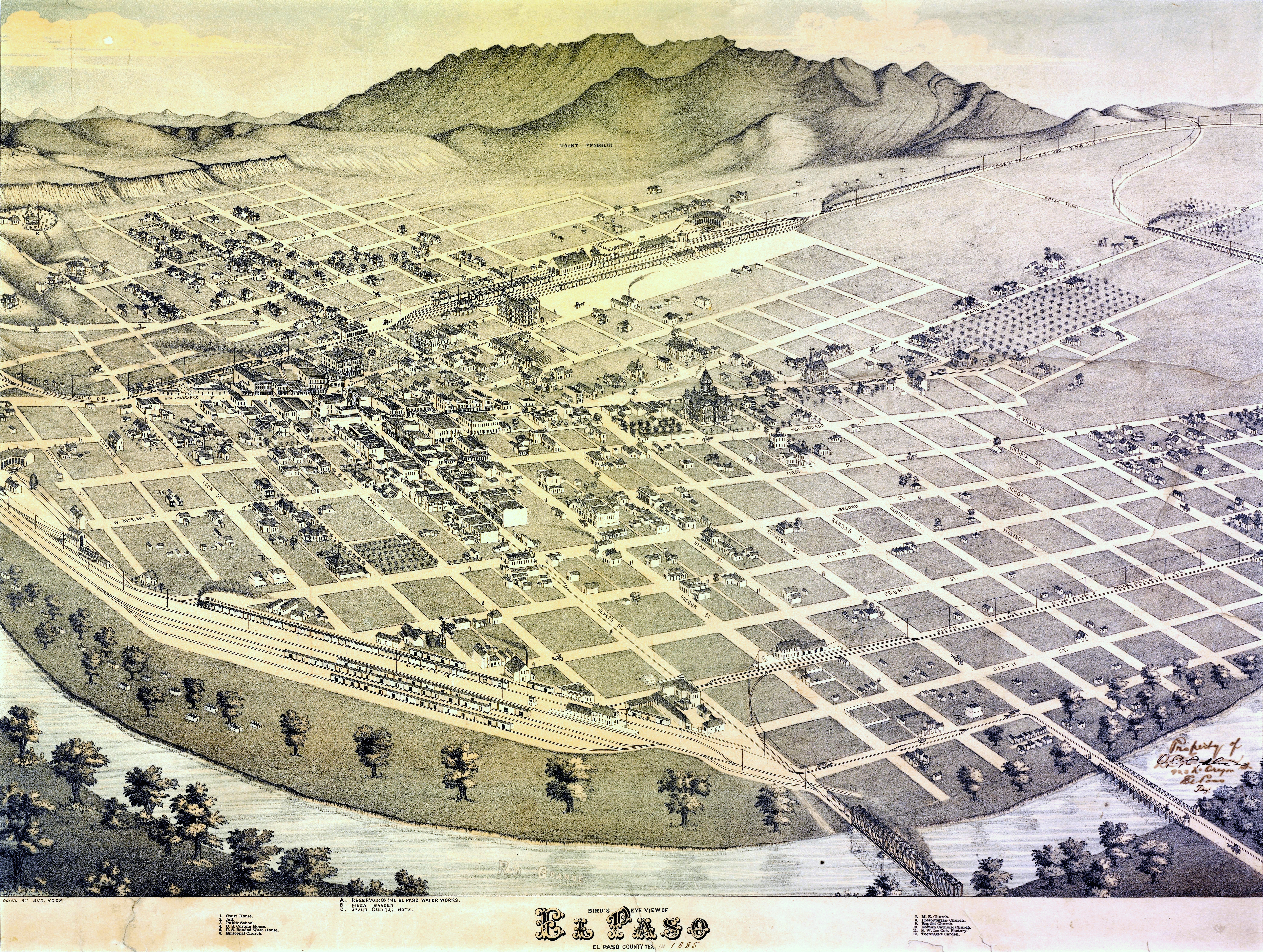 El Paso, Texas in 1886. Bird's Eye View of El Paso, El Paso County Texas, 1886. Lithograph, 20 x 30 in. Lithographer unknown. Private Collection.